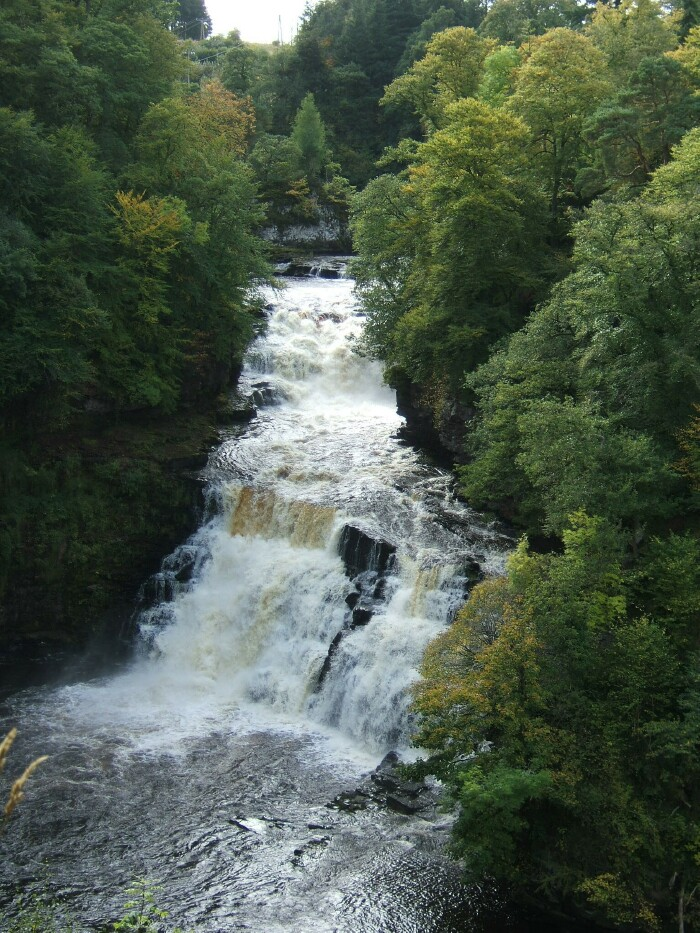 author: R Pollack